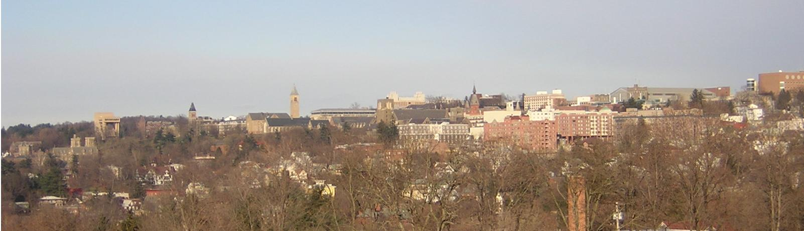 View of East Hill, intended to illustrate Ithaca, New York